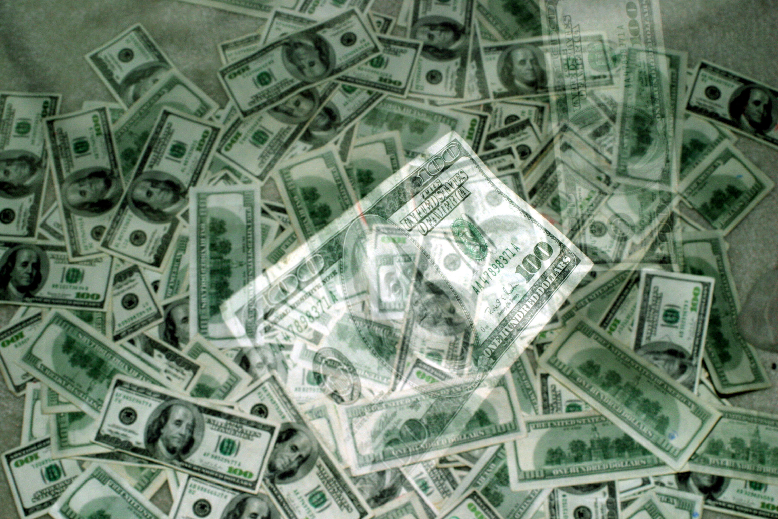 one hundred doller bill colection